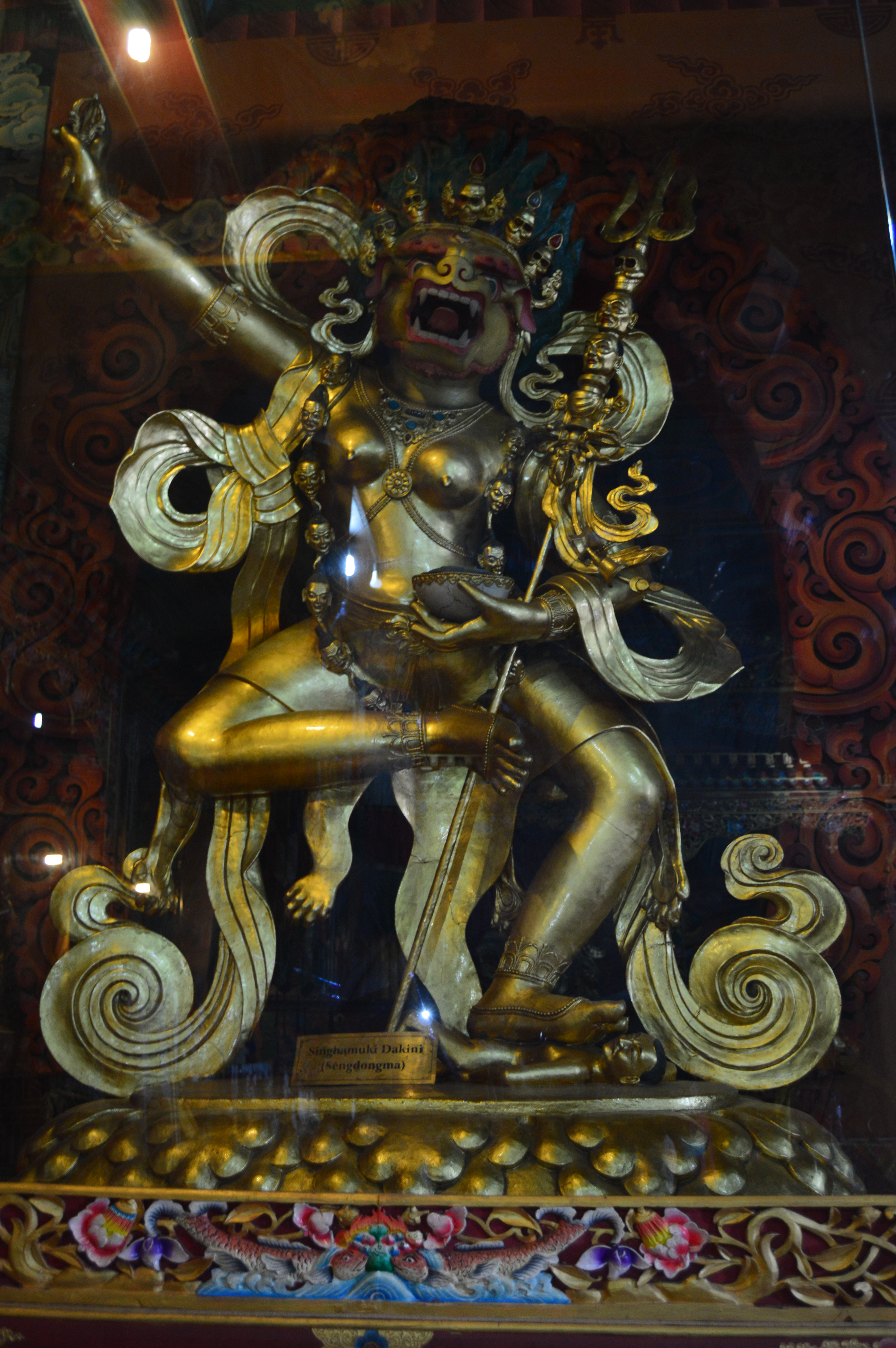 Bauddha Naht